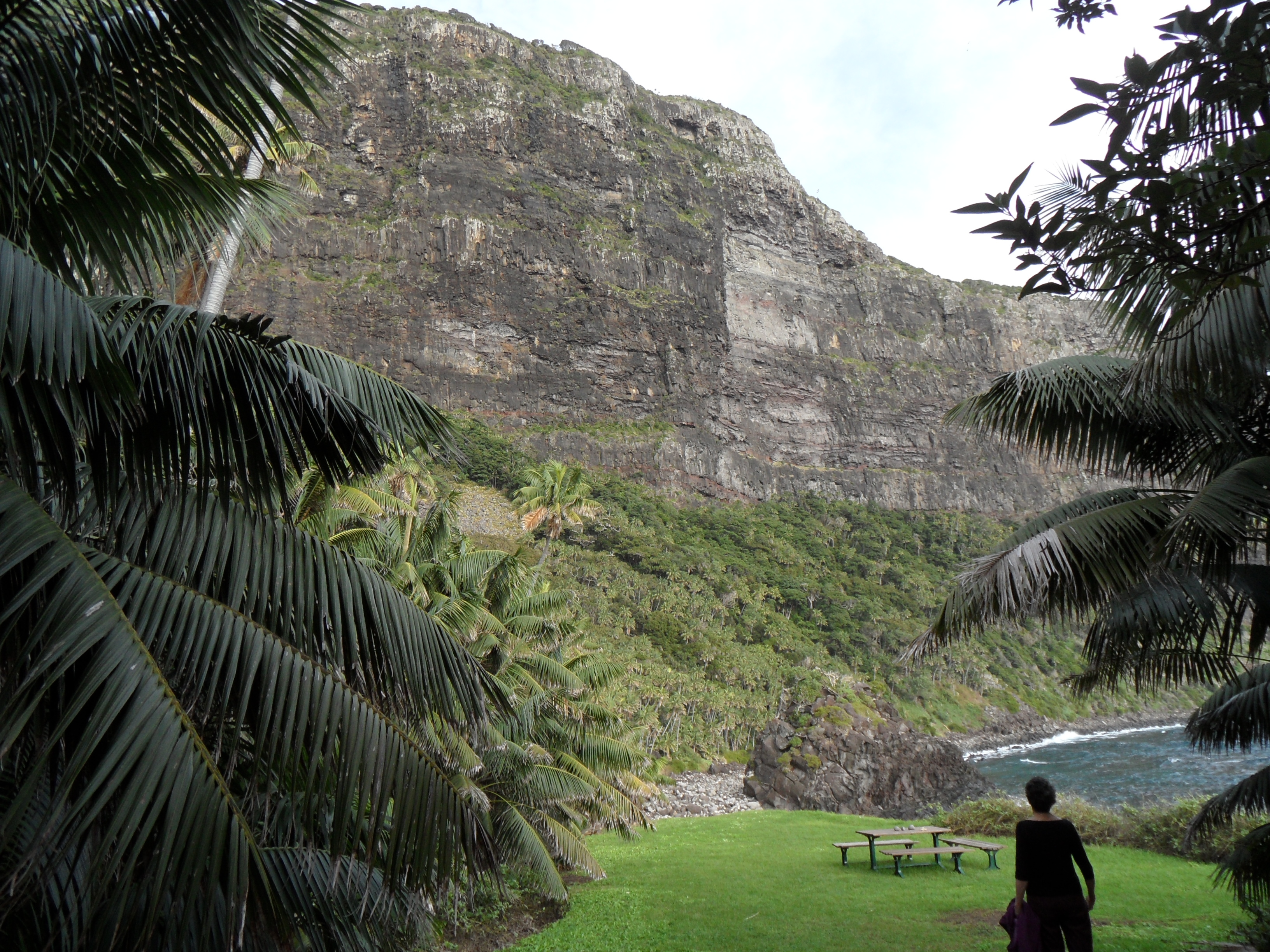 Little island on Mt Lidgbird track Lord Howe Island 8June2011